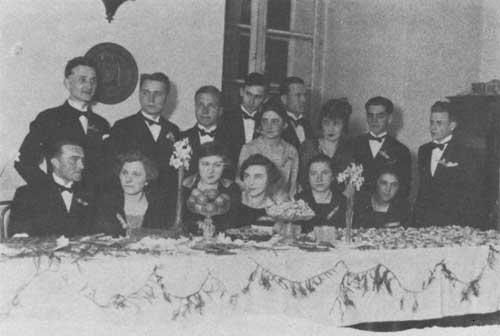 Orden with girls from Swallow-kuren